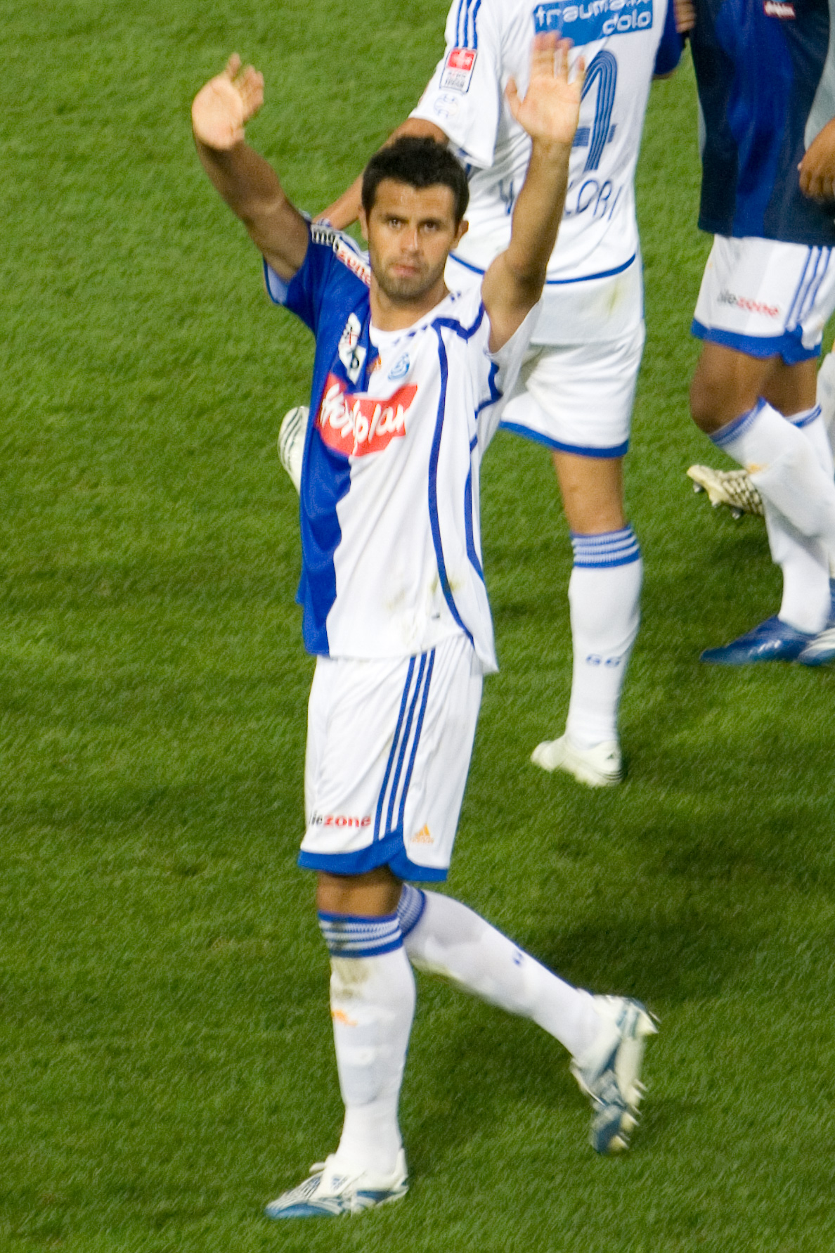 Boris Smiljanic, soccer player GC Zurich